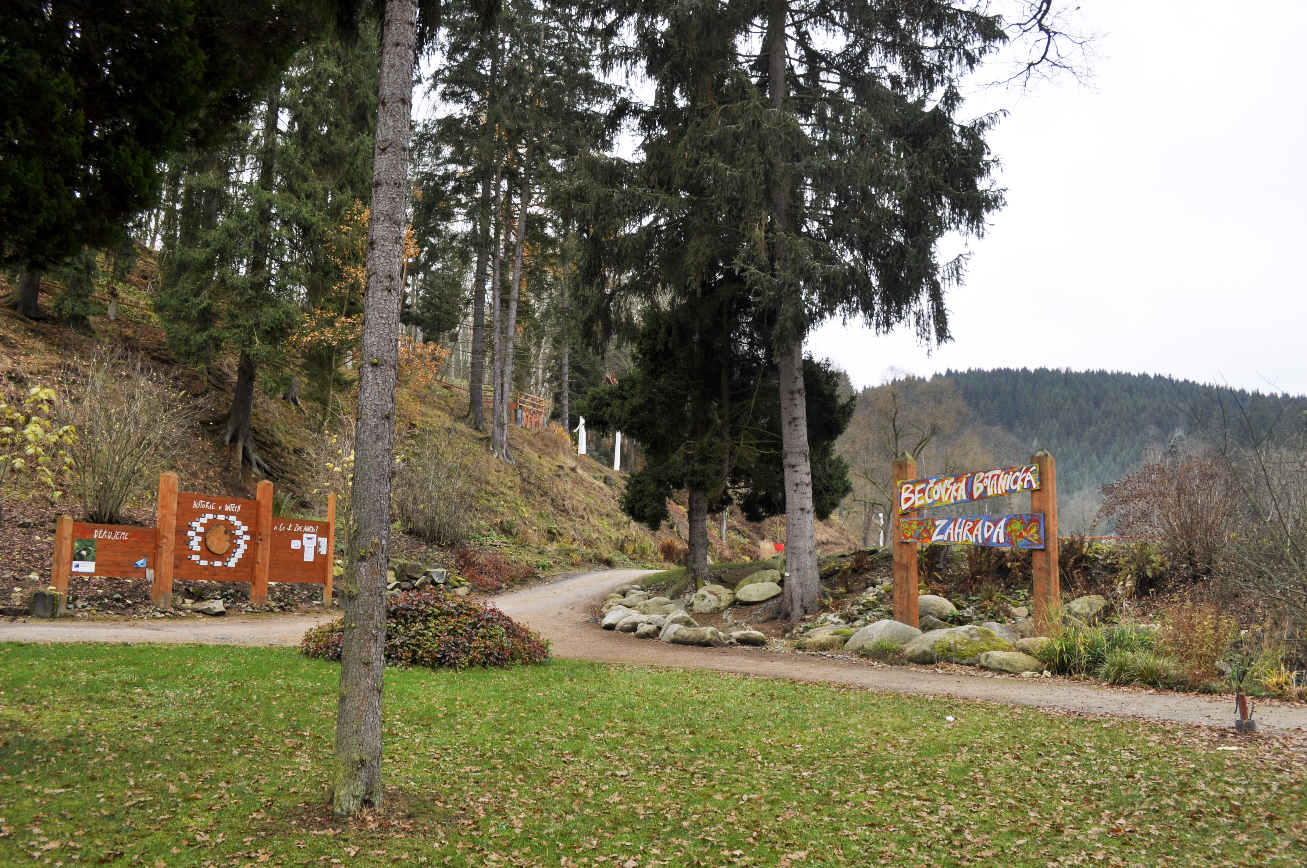 Botanical Garden in Bečov nad Teplou